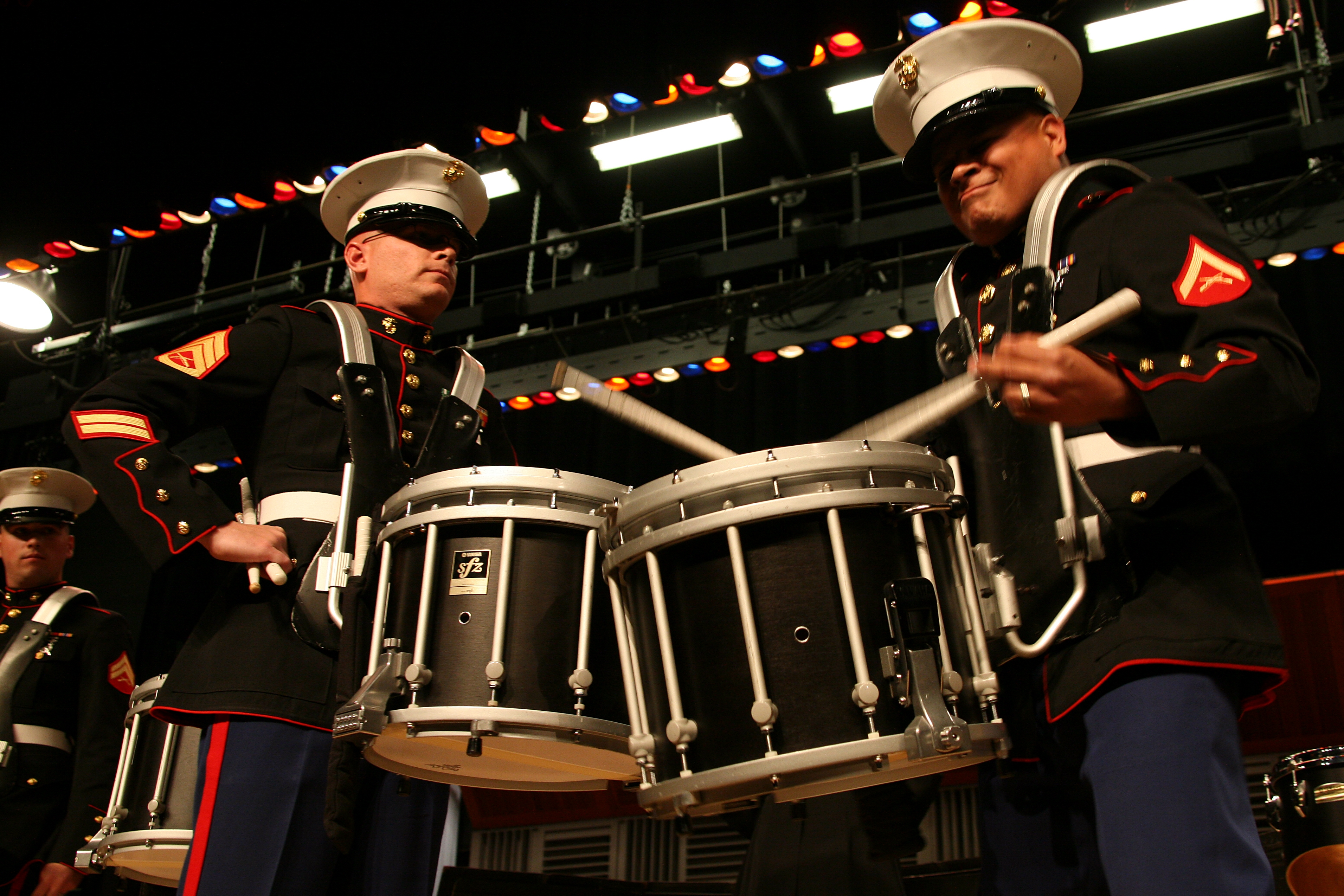 Lance Cpl. Albert Charles, a percussionist with the 2nd Marine Aircraft Wing Band, showboats during his solo, much to the chagrin of Staff Sgt. Kristofer Hutsell, 2nd MAW band enlisted conductor, during a performance at Uniondale High School in Uniondale, N.Y., March 18. The act was a crowd favorite for audiences during the band’s 10-day tour of Northeastern cities.